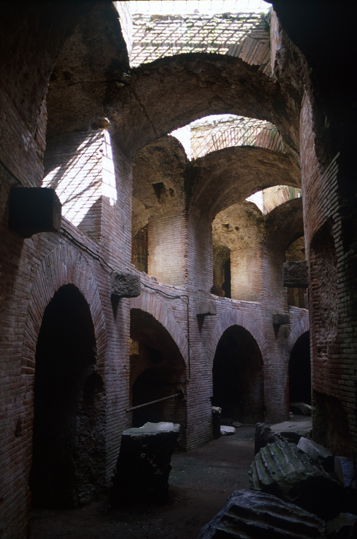 Undercroft of amphitheatre in Pozzuoli, Bay of Naples - Italy).